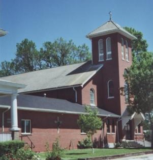 St. Alphonsus Catholic Church in Davenport, Iowa. The parish was establishes in 1908 and the church was built between 1912-1913. Photo is a scan of the original, which was taken with a non-digital camera.